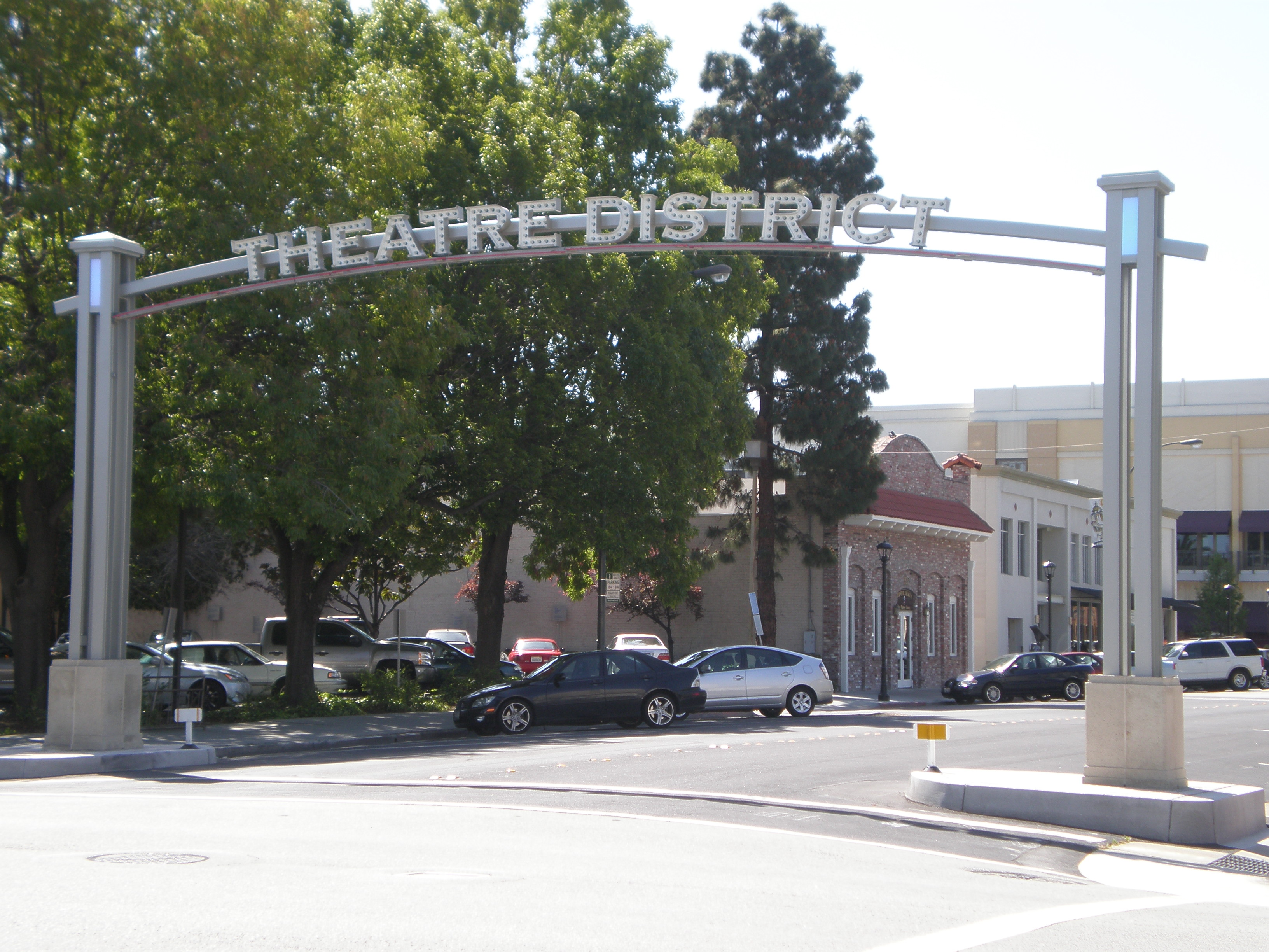 A road arch in the Theatre District of Redwood City, California.